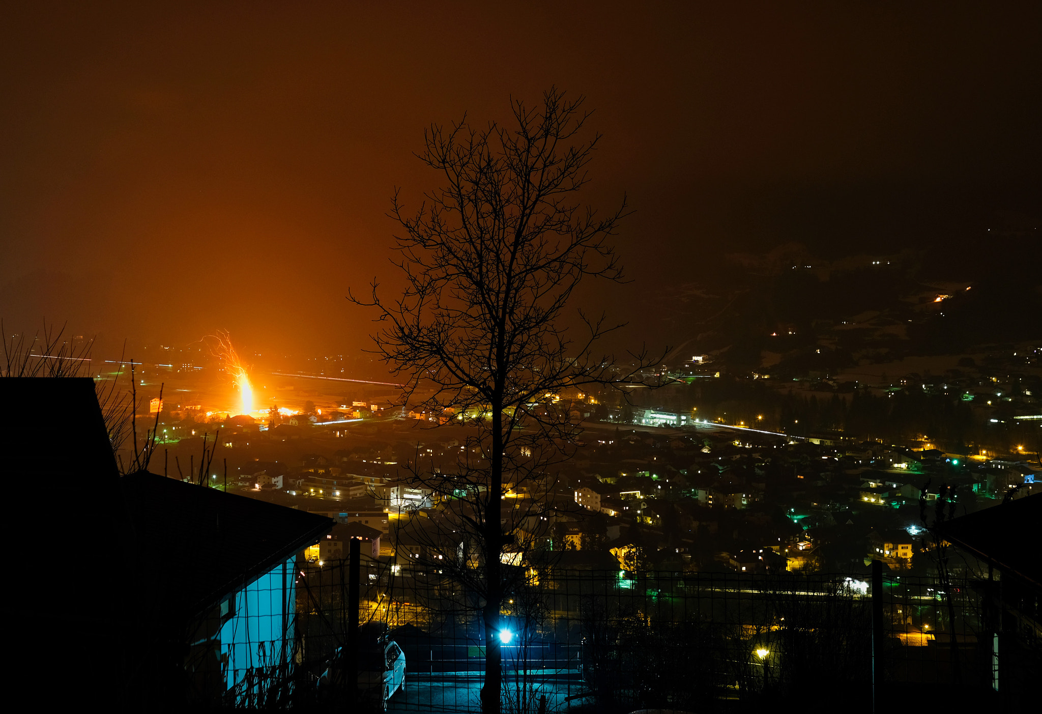 500px provided description: Feuer in der Nacht [#fire ,#sky ,#city ,#street ,#night ,#light ,#tree ,#cityscape ,#silhouette ,#evening ,#dusk ,#street light]